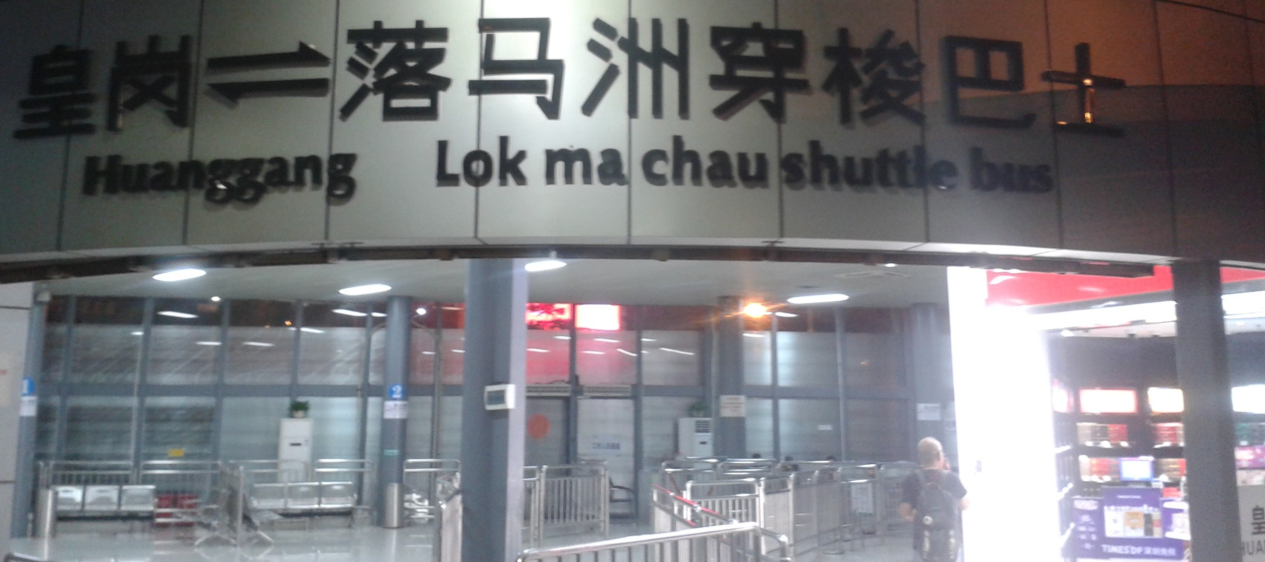 Entrance to the Cross Border Shuttle Bus terminus at Huanggang Port in Shenzhen